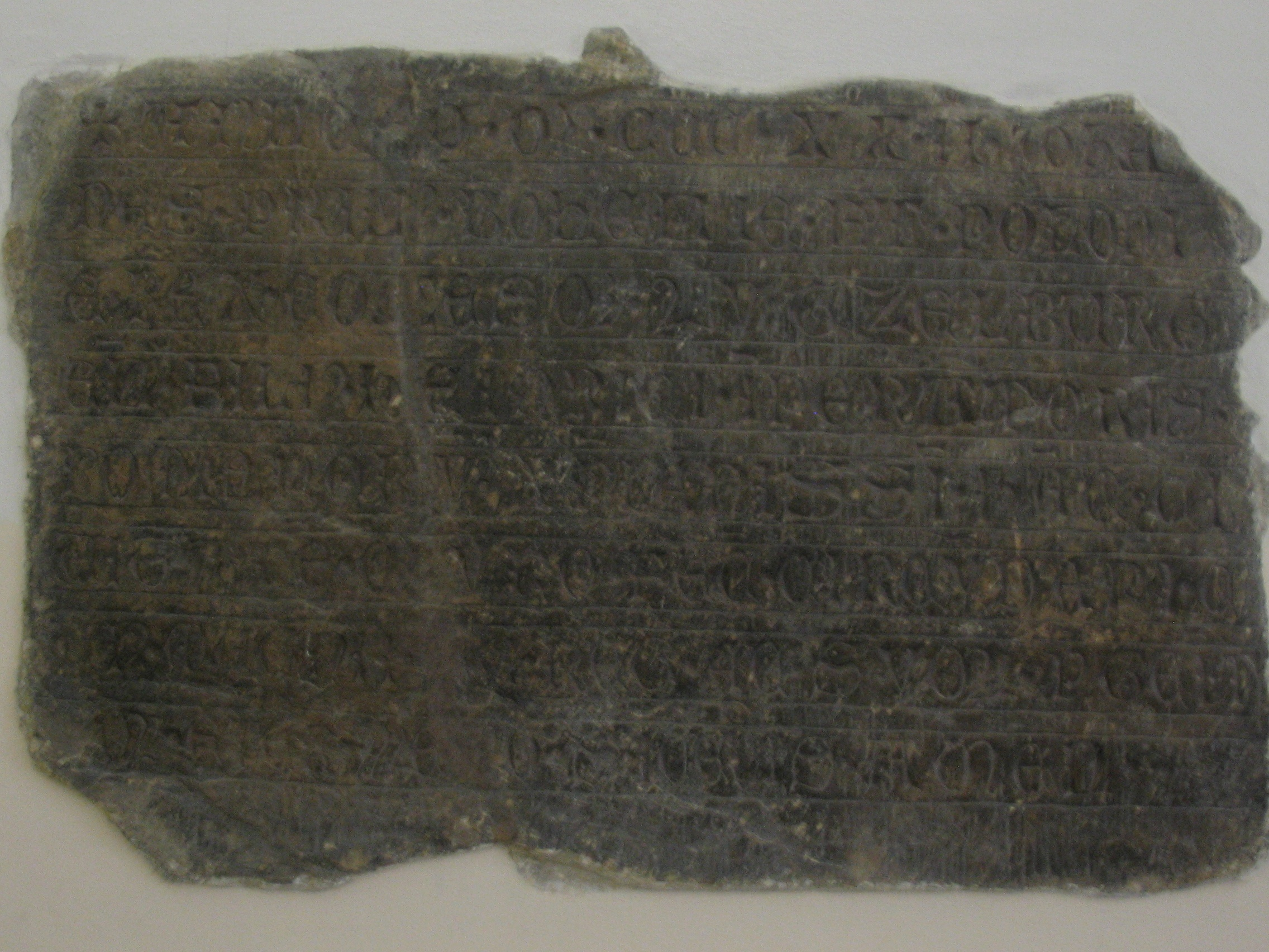 A stone plaque created in 1322 to commemorate construction of the city walls with a Latin inscription, today in the town hall of Sušice, Klatovy District, Czech Republic